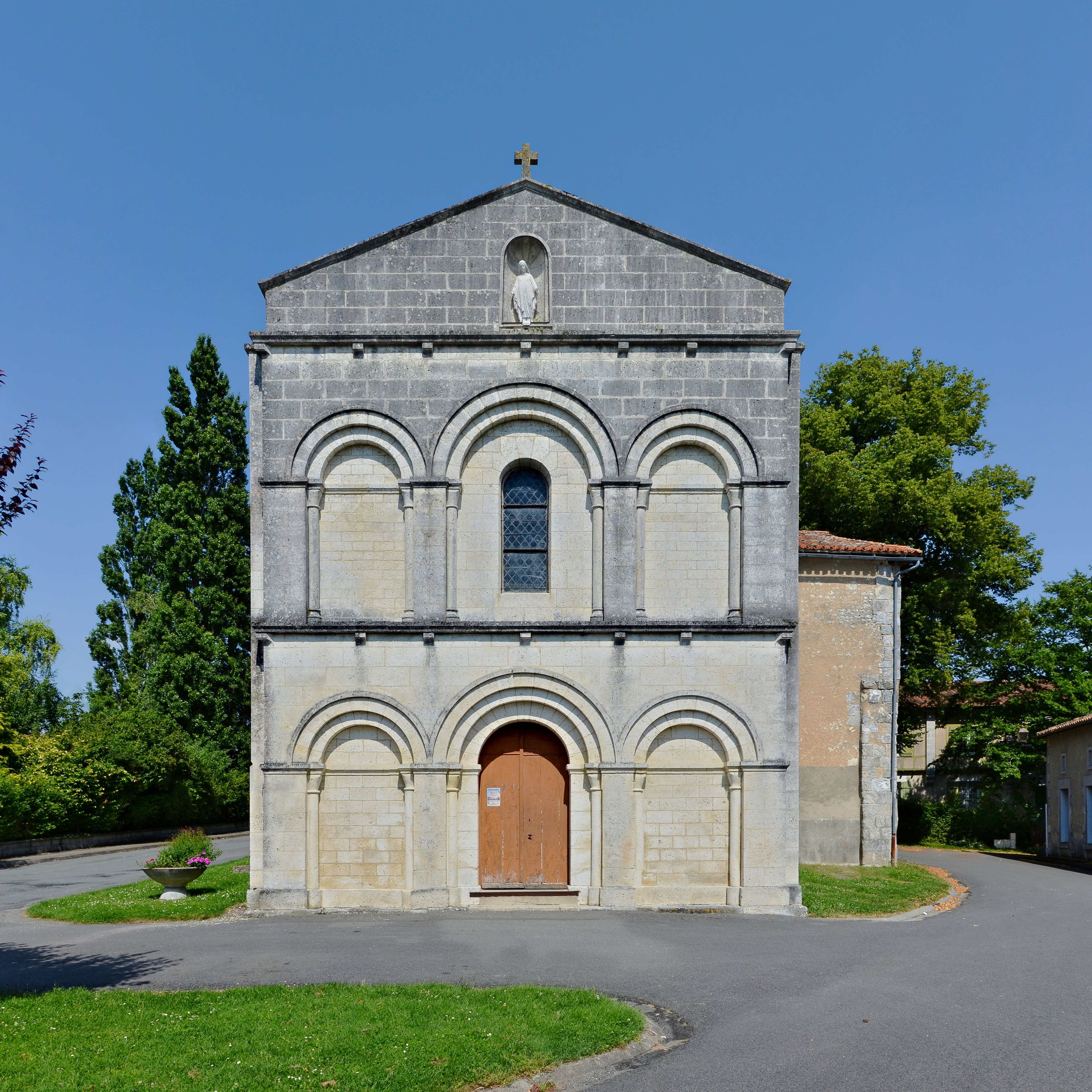 Church of Brie-sous-Chalais, Charente,France.